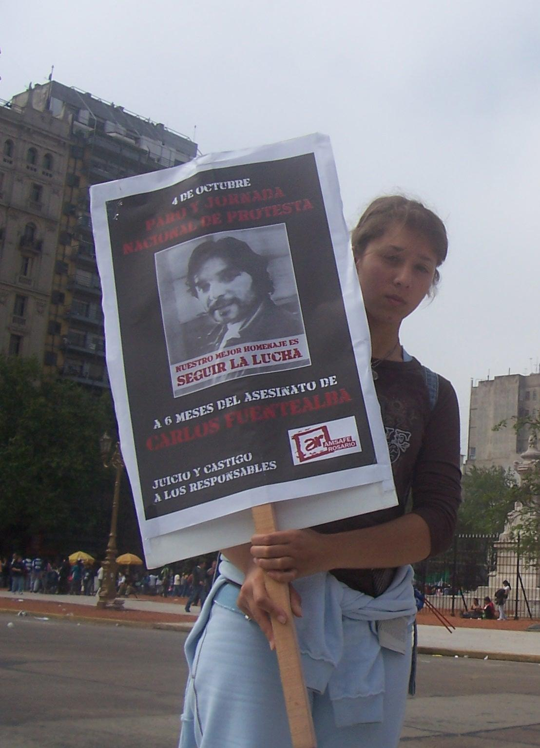 National Teaching Demonstration in Argentina on October 4th, 2007.